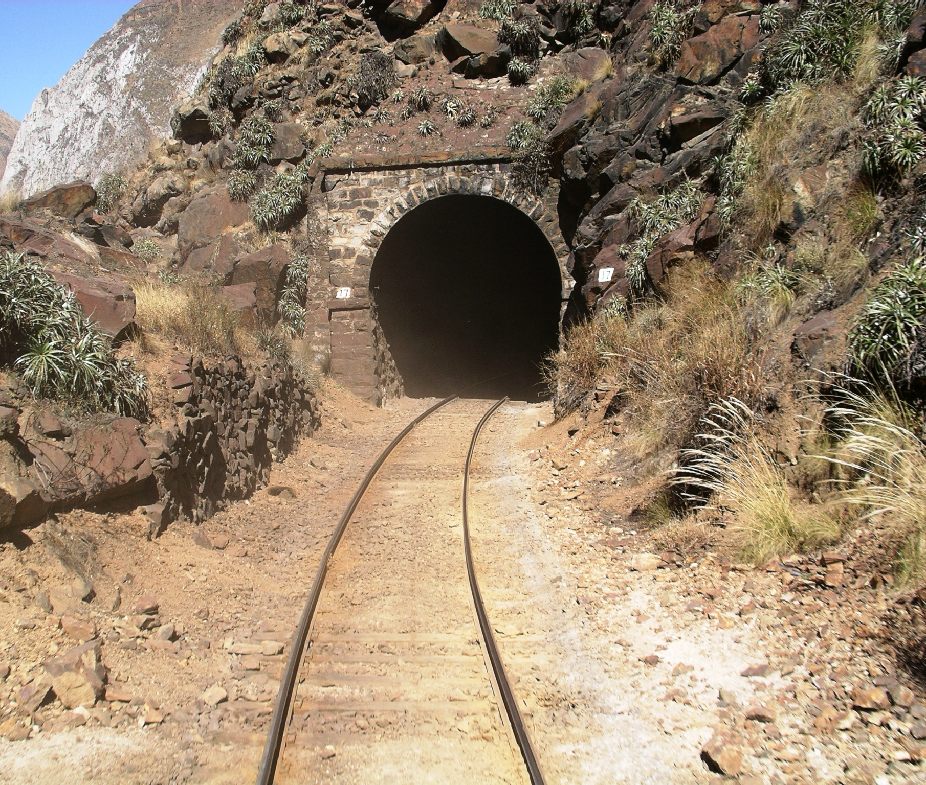 Train Track of the line "Lima - Morococha - Abra Anticona (Ticlio) - La Oroya - Huancayo" in Peru. This picture it taken about at 2000m above sea level going up from Lima